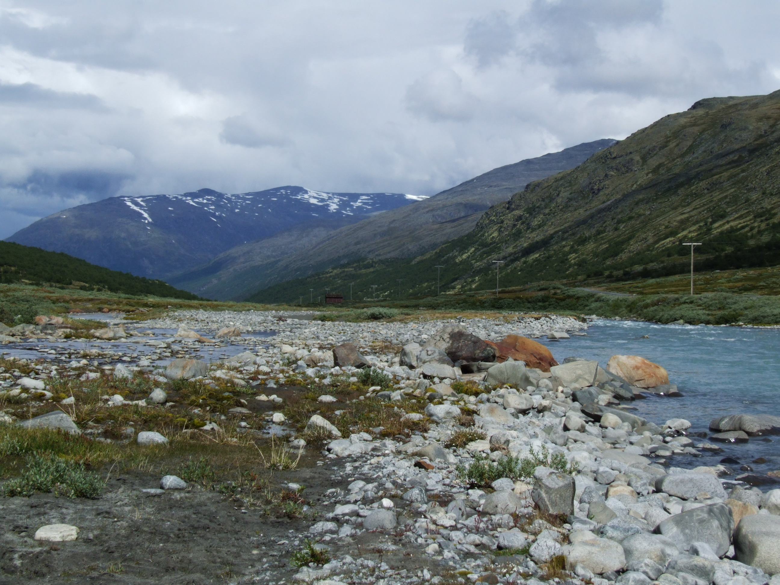 Jotunheimen moutains - view from Spiterstulen